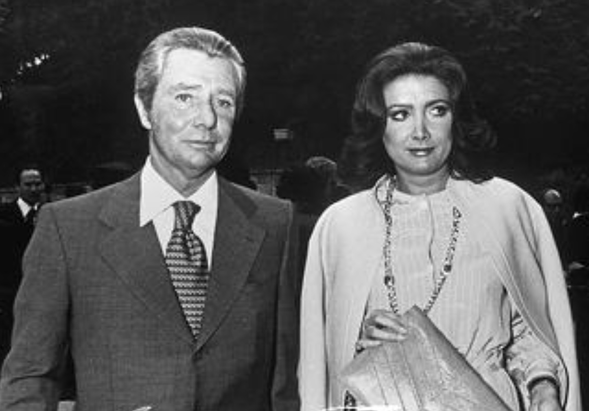 Count and Countess Agusta 1977